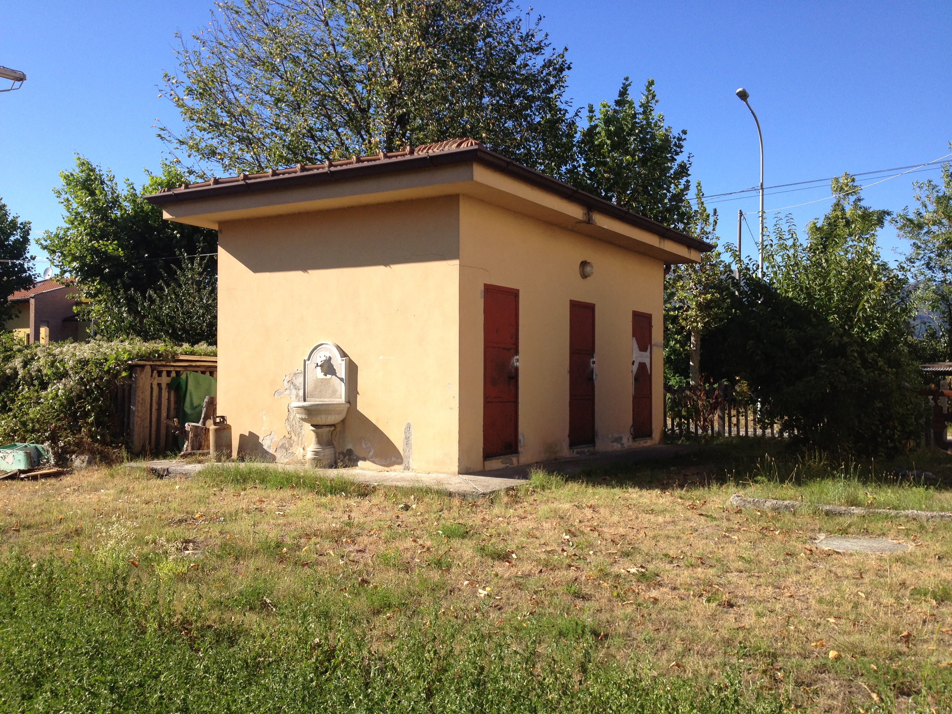 The building was once used as a public toilet for the Anzano station.